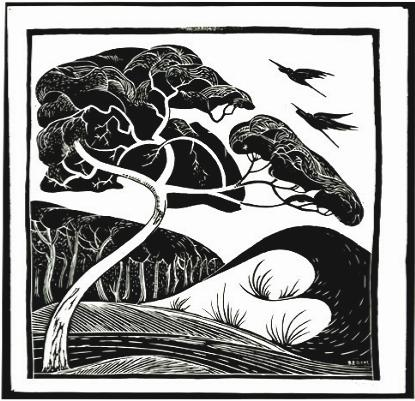 Woodcut made in 1922-1923 by the Dutch artist Bernard Essers